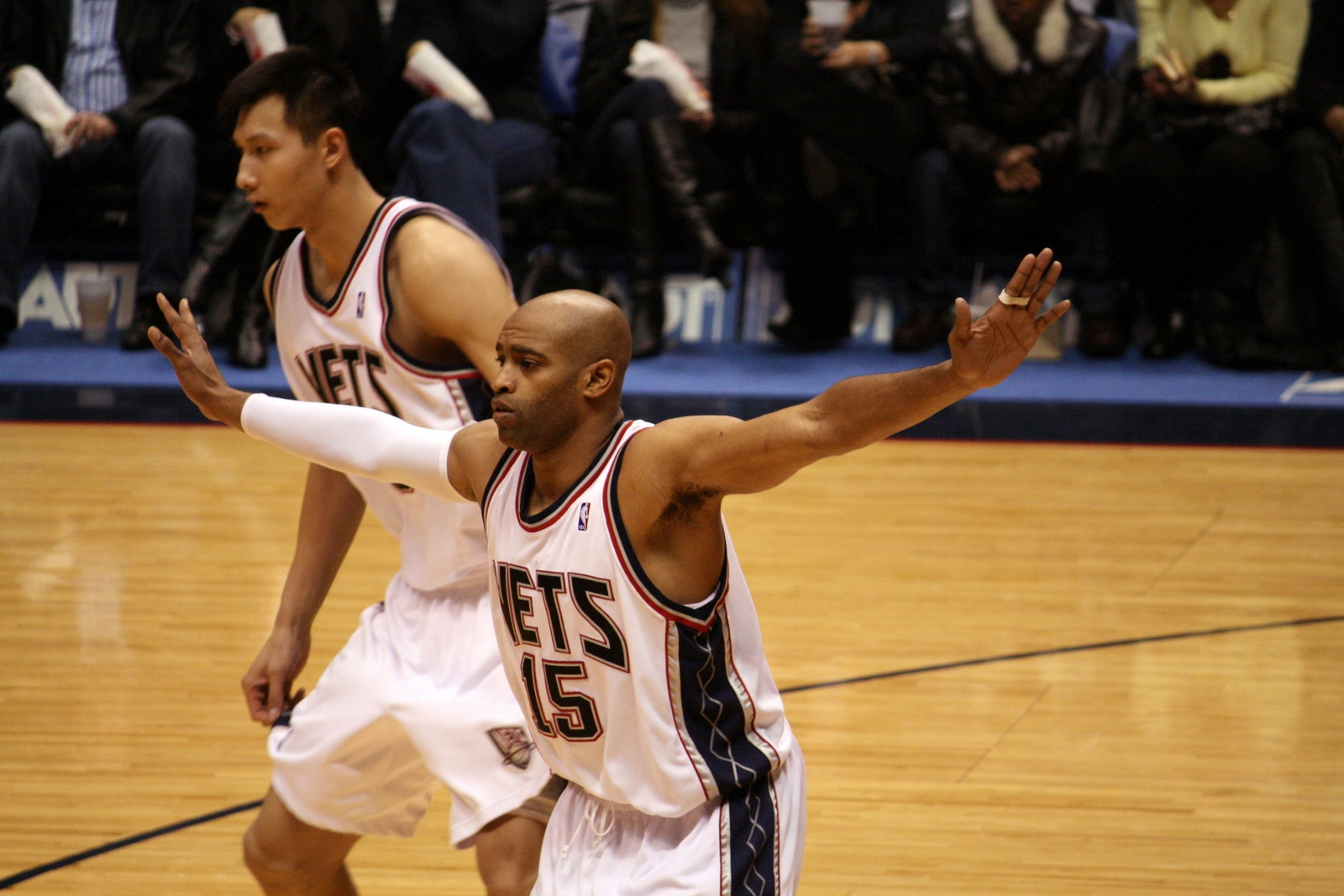 Yi Jianlian and Vince Carter with the New Jersey Nets